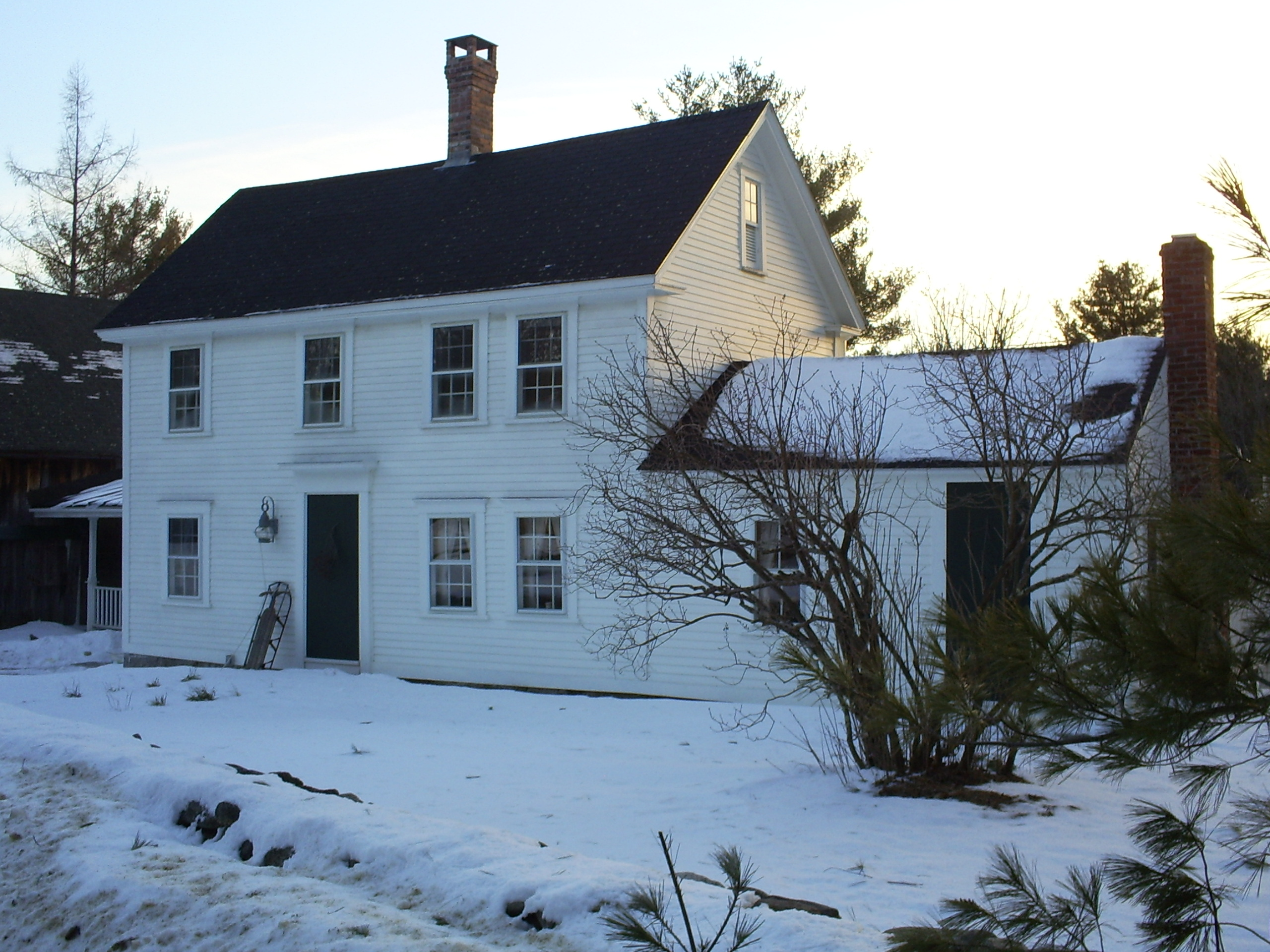 Photo by Craig Michaud.This is birthplace of Sam Foss in Candia, New Hampshire.